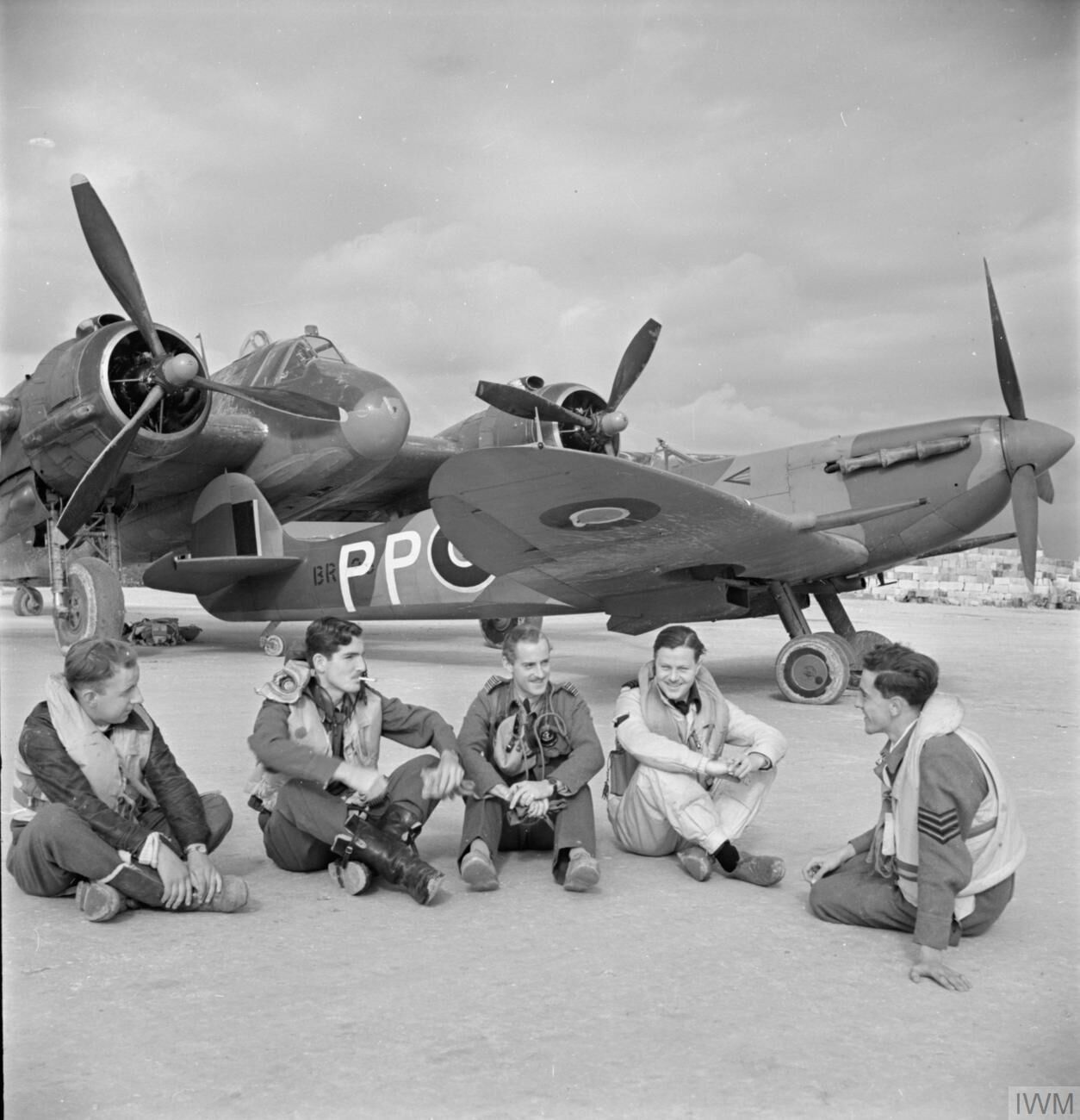 Five Malta-based pilots sitting in front of two fighter aircraft at Luqa. Third and fourth from the left, respectively are, Wing Commander J.K. Buchanan, Commanding Officer of No. 272 Squadron RAF, and Wing Commander M.M. Stephens, leader of the Hal Far Fighter Wing, shortly before the end of his tour of operations. Behind them is Wing Commander P.P. Hanks' Supermarine Spitfire Mark VC, BR498 'PP-H', which he flew as leader of the Luqa Fighter Wing, parked in front of a Bristol Beaufighter of No. 272 Squadron RAF.